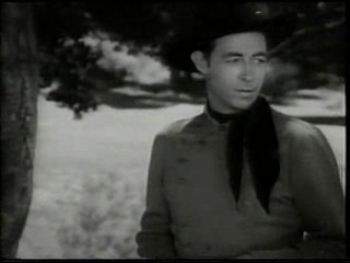 Western star and singer Eddie Dean starring the western move Stars Above Texas, 1946.